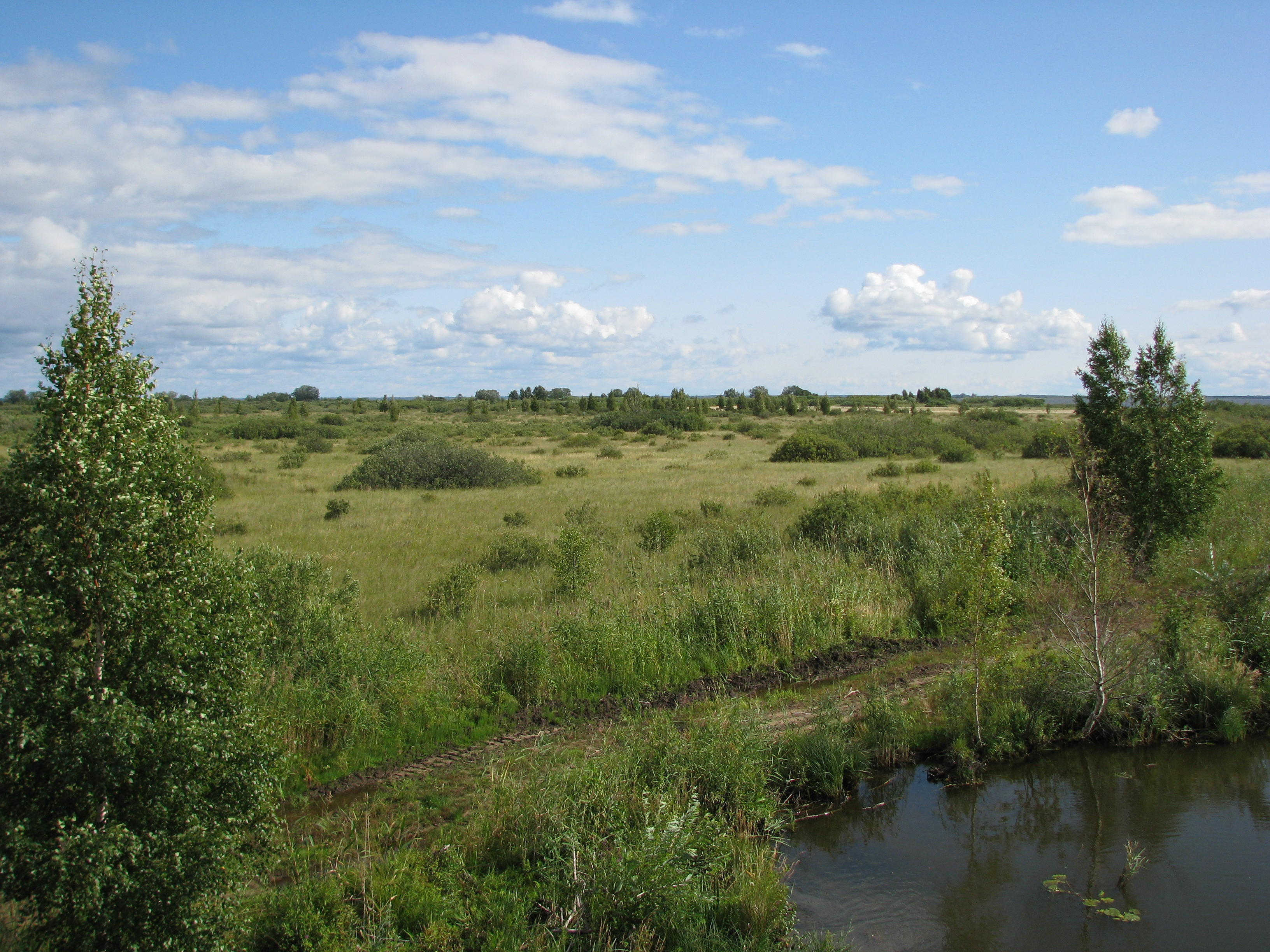 Vaade Piirissaarele kanalilt laeva pealt.